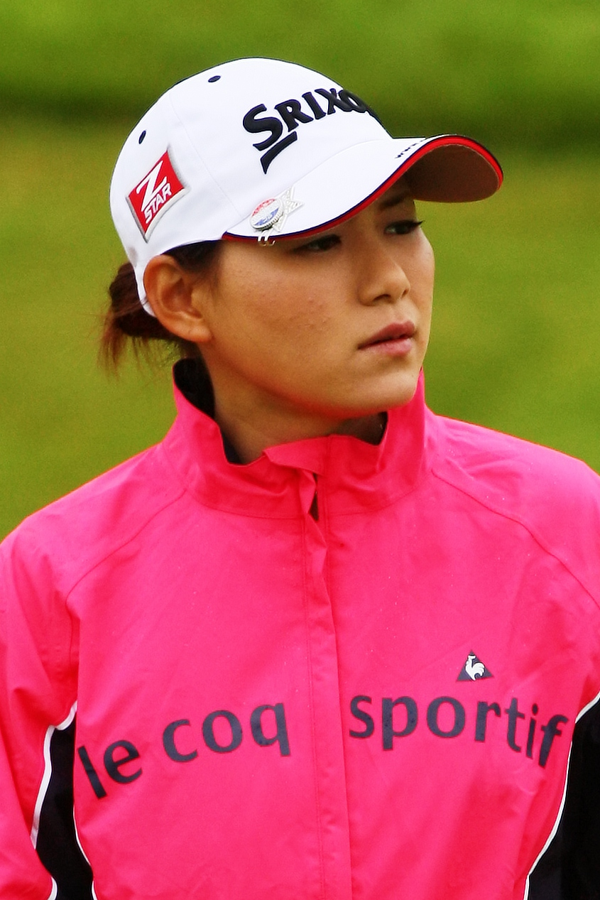 SOUTHPORT, UNITED KINGDOM - JULY 27: Yokomine Sakura of Japan on the 8th green during pro-am round before 2010 Ricoh Women's British Open held at Royal Birkdale on July 27, 2010 in Southport, England. (Photo by Wojciech Migda)